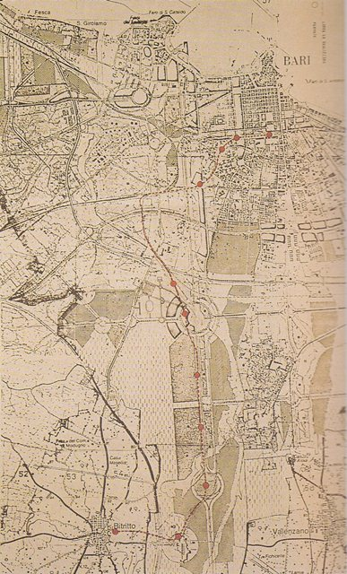 Bari-Bitritto railway original plan